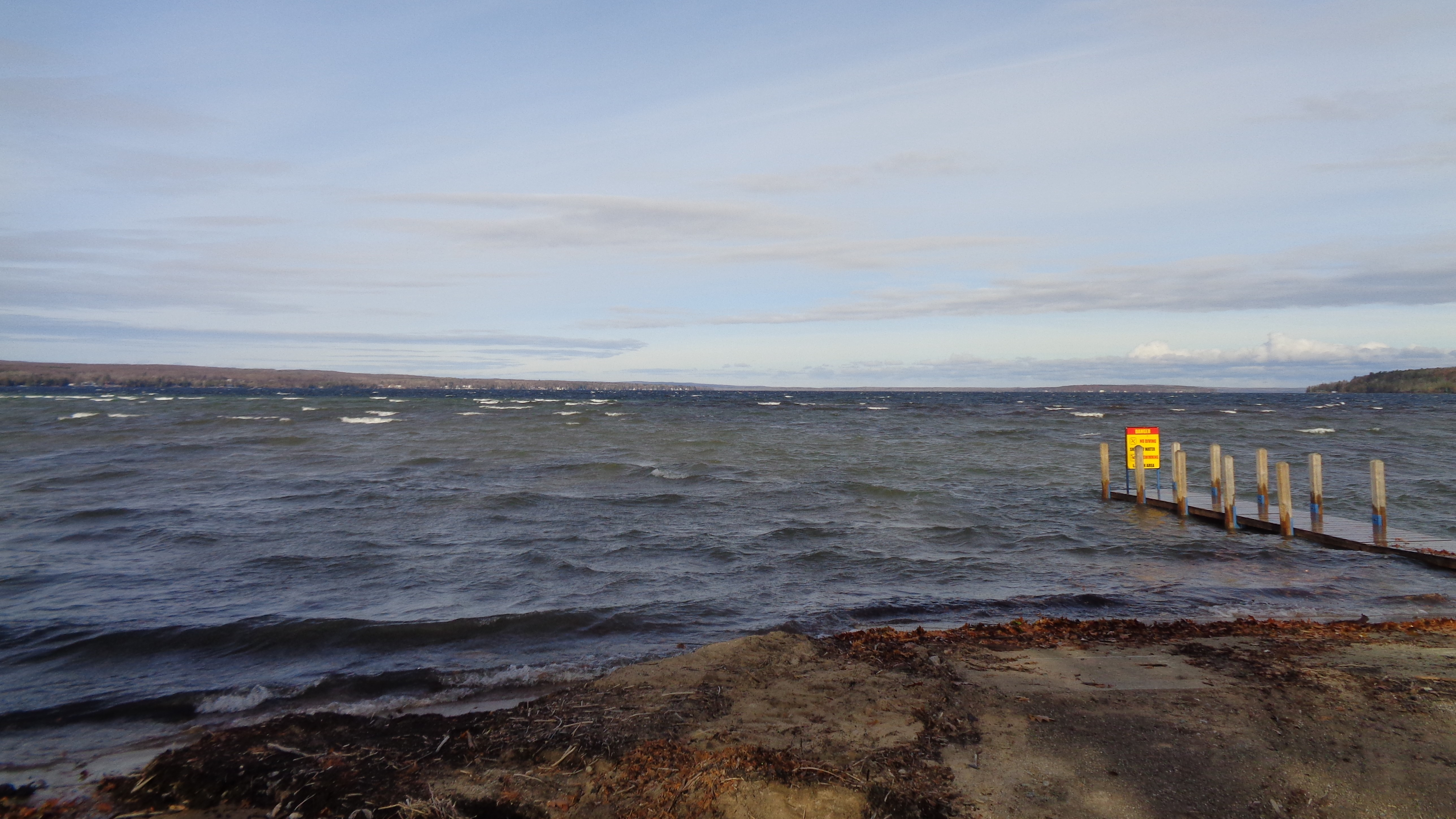 Depicted place: Burt Lake